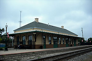 Mineola station in September 2008